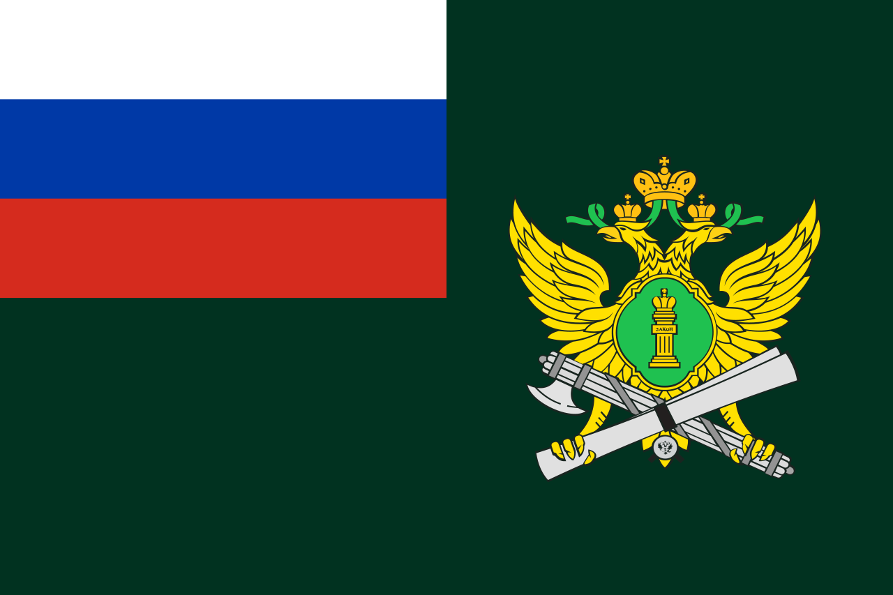 Flag of Federal service of Bailiffs 2004-2006